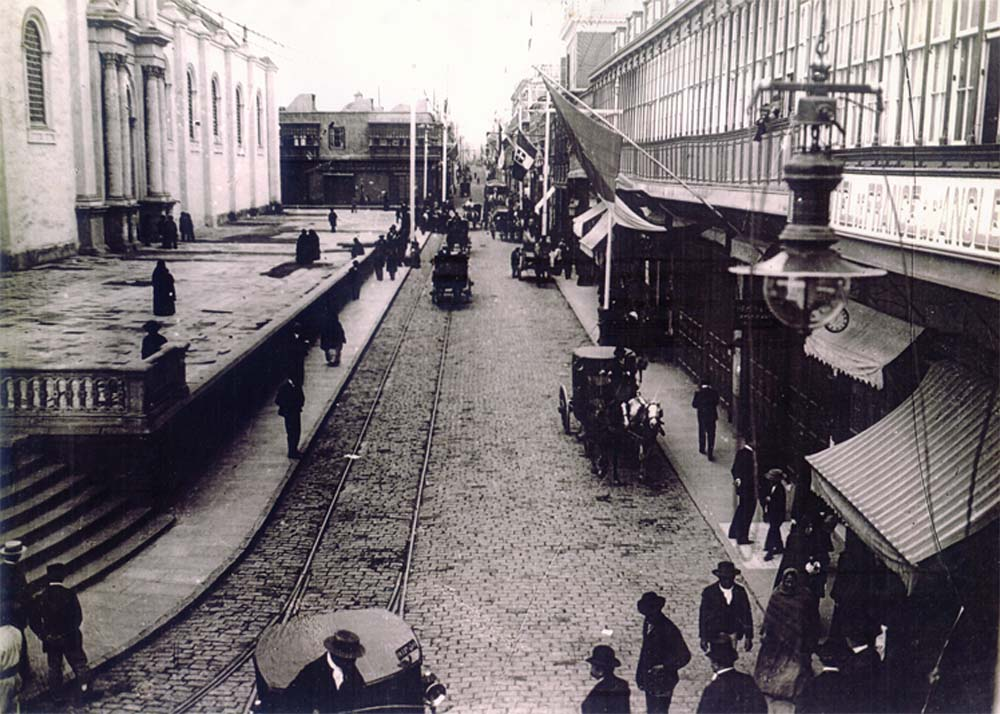 Street of the Jews in Lima, Peru